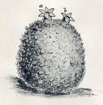 Molgula oculata Forbes, 1848; Molgulidae; a) branchial orifice; b) atrial orifice